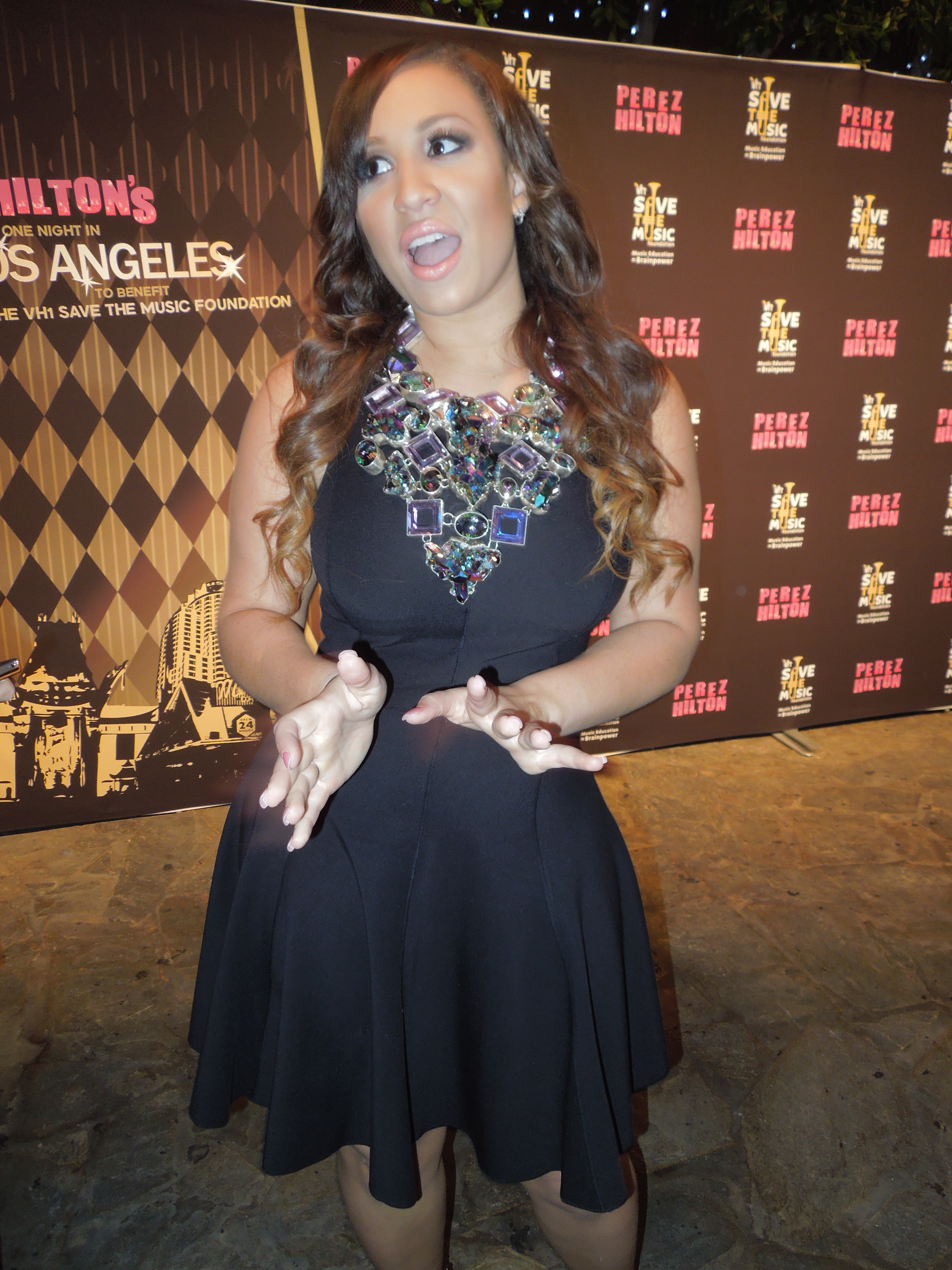 Melanie Amaro, winner of the first season of X-Factor, chats with the press. No one could take their eyes off her gorgeous necklace. (Sarah Mickelson, Neon Tommy)